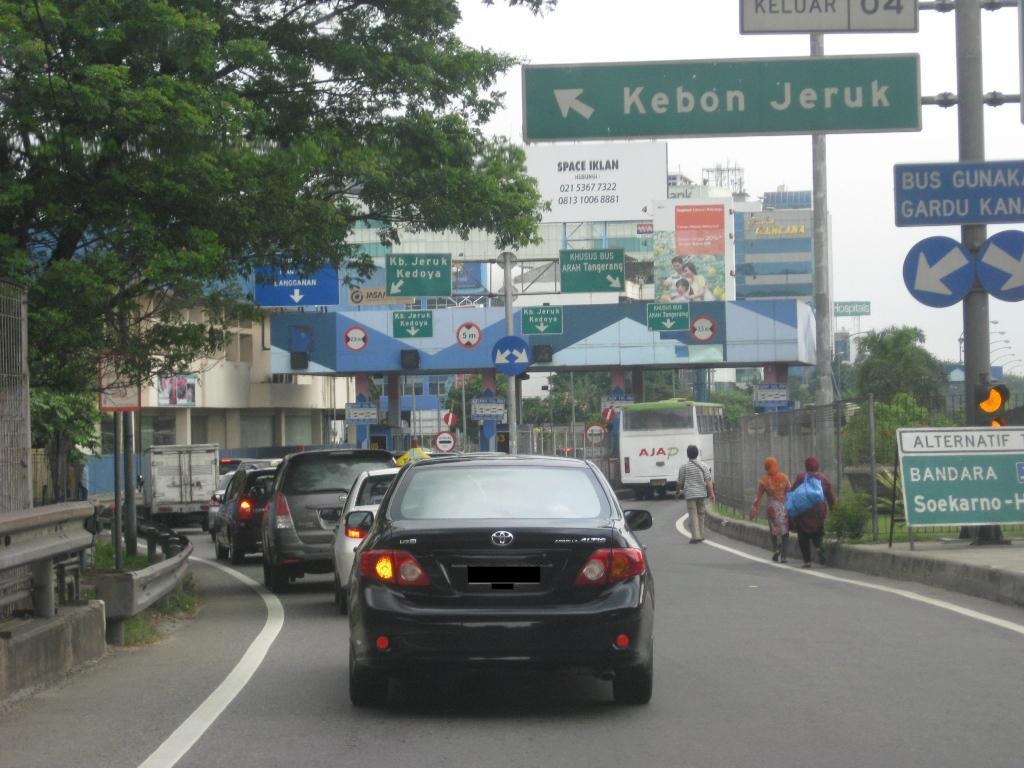 A Black Mica Toyota Corolla Altis 1.8 J (ZZE142) and other vehicles are exiting freeway at Kebon Jeruk ramp in West Jakarta.